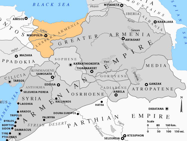 Map of Armenia Minor beside the Armenian Empire in the 1st century BC (Armenia Minor was not part of the empire).